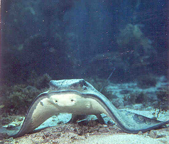 Bat Ray Shark (Myliobatis californica)